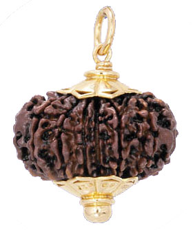 Own creation and photo - to public domain